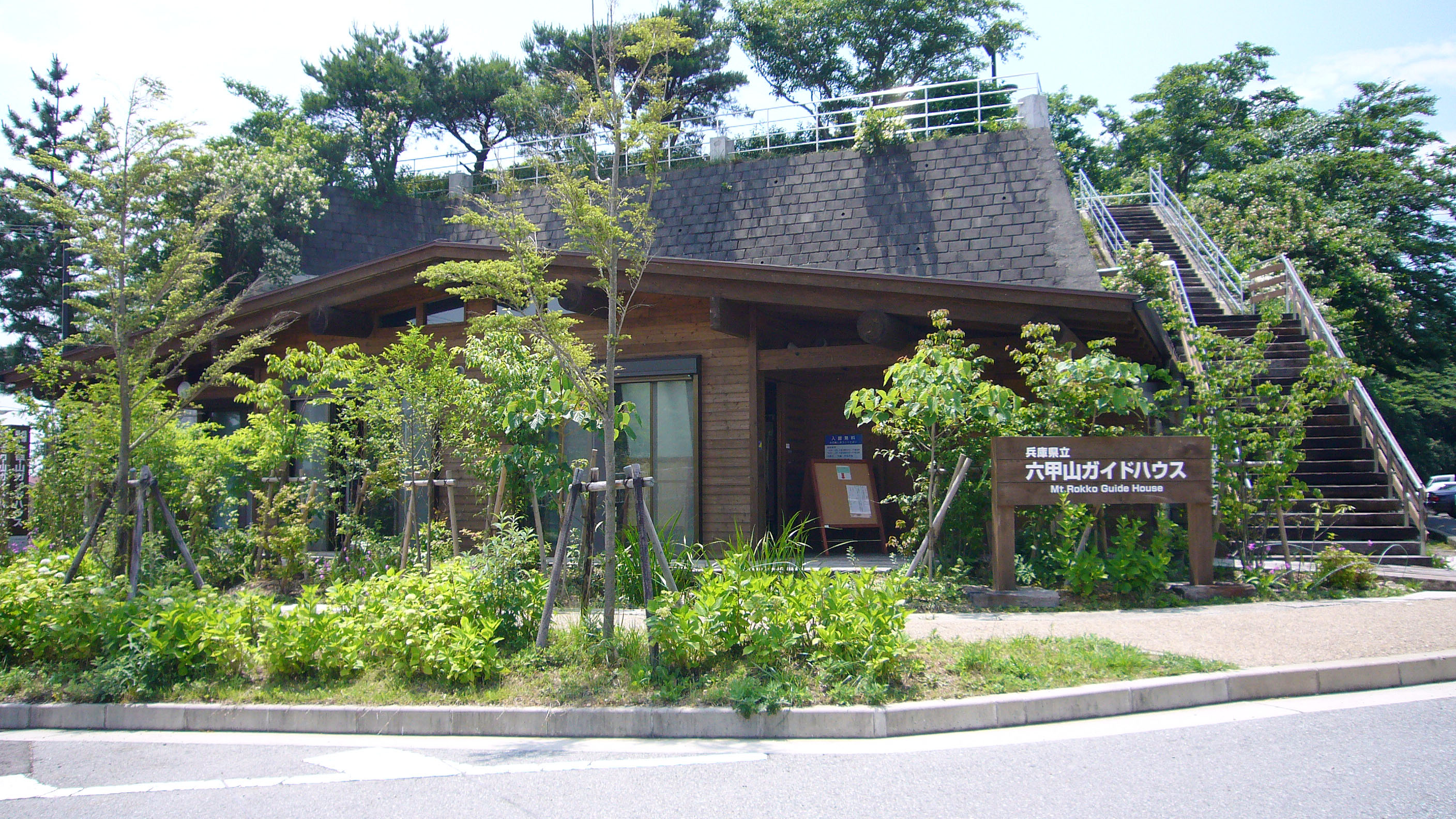 Mount Rokko Nature Preservation Center Annex in Kobe City